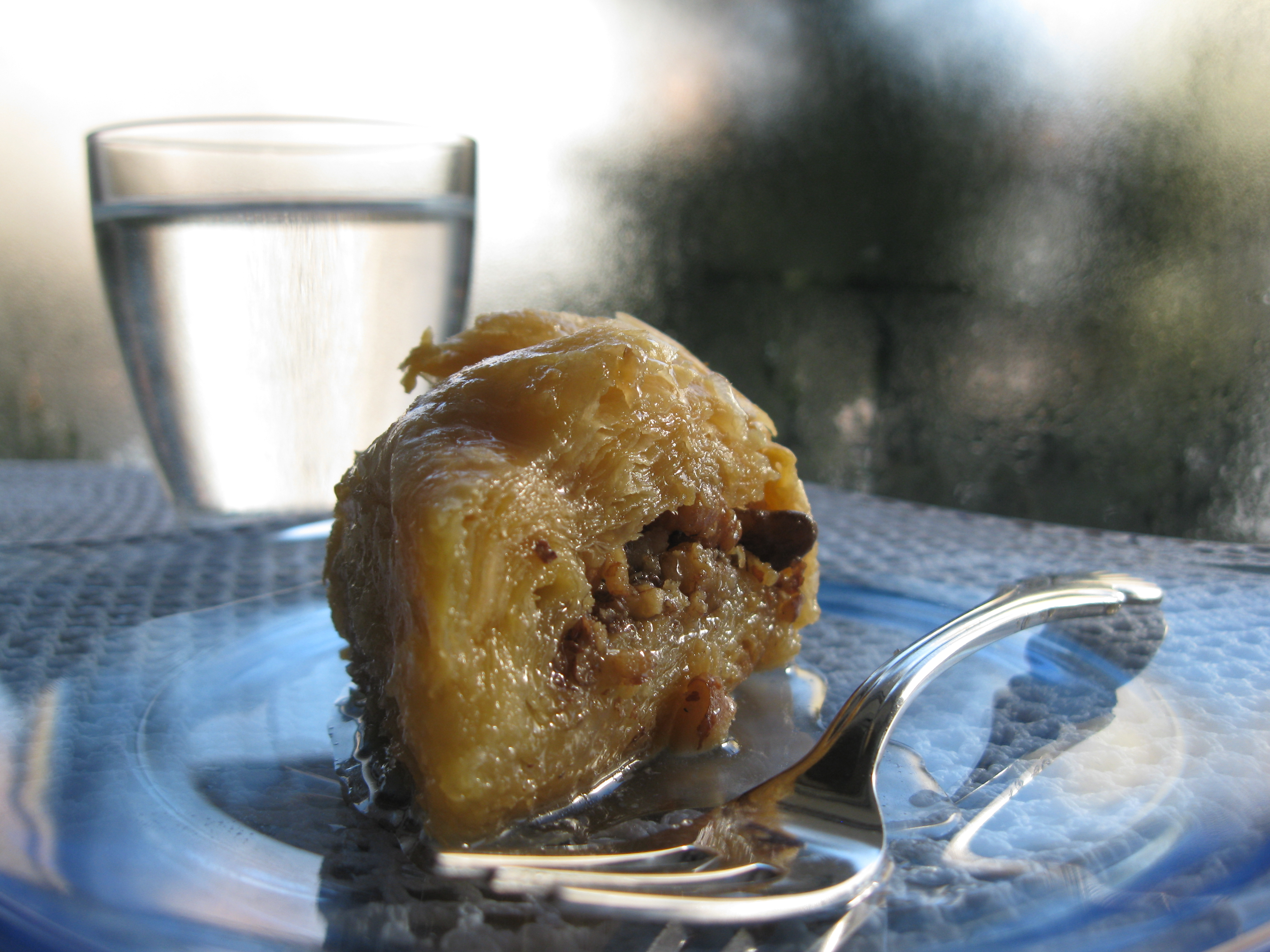 Ndonëse me prejardhje osmane bakllava është njëra nga ëmbëlsirat tradicionale të kuzhinës kosovare, cila gatuhet ne të gjitha anët e Kosoves